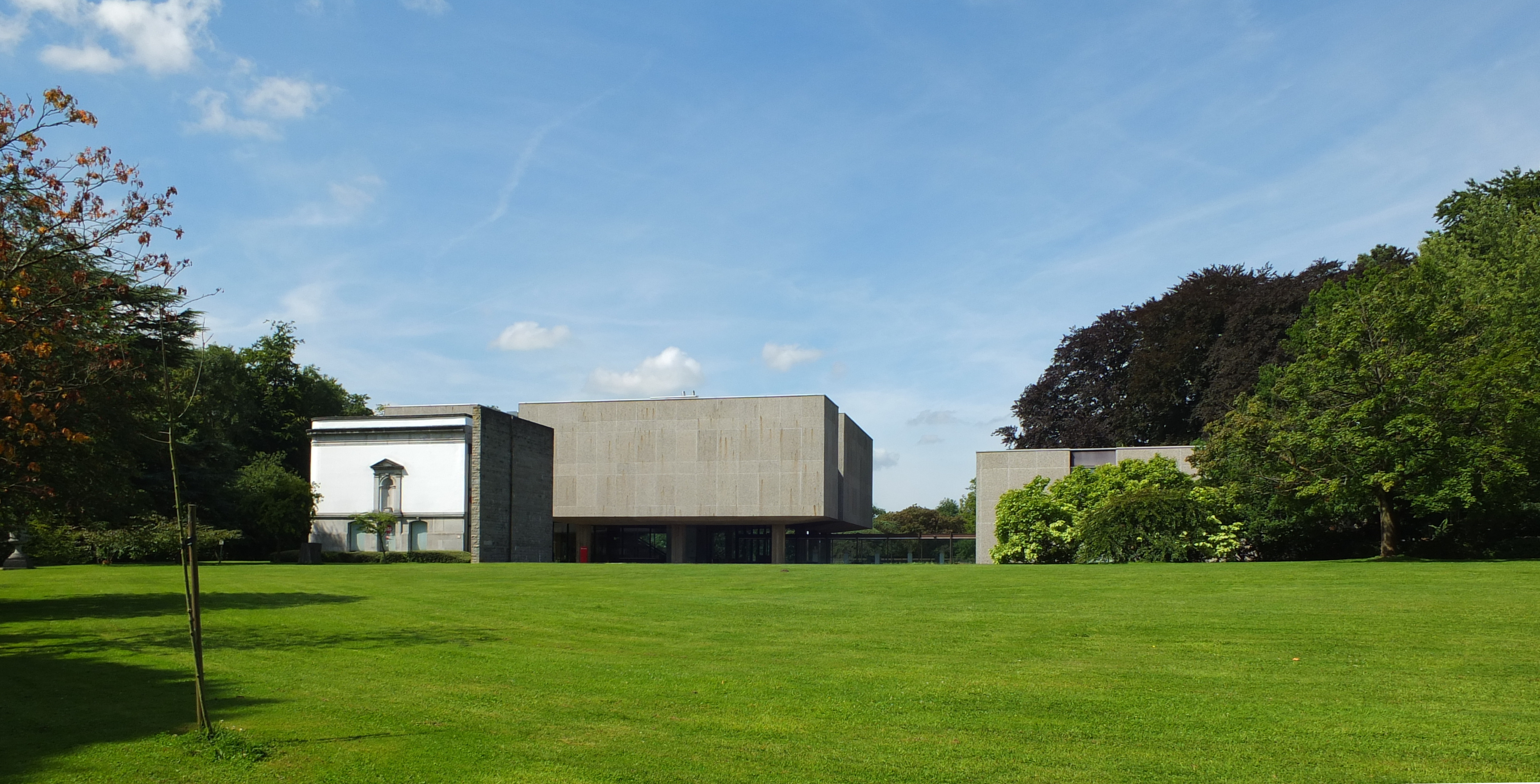 Musée Royal de Mariemont, designed by Roger Bastin.